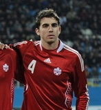 Dejan Jakovich with Canada national team vs. Ukraine in 2010